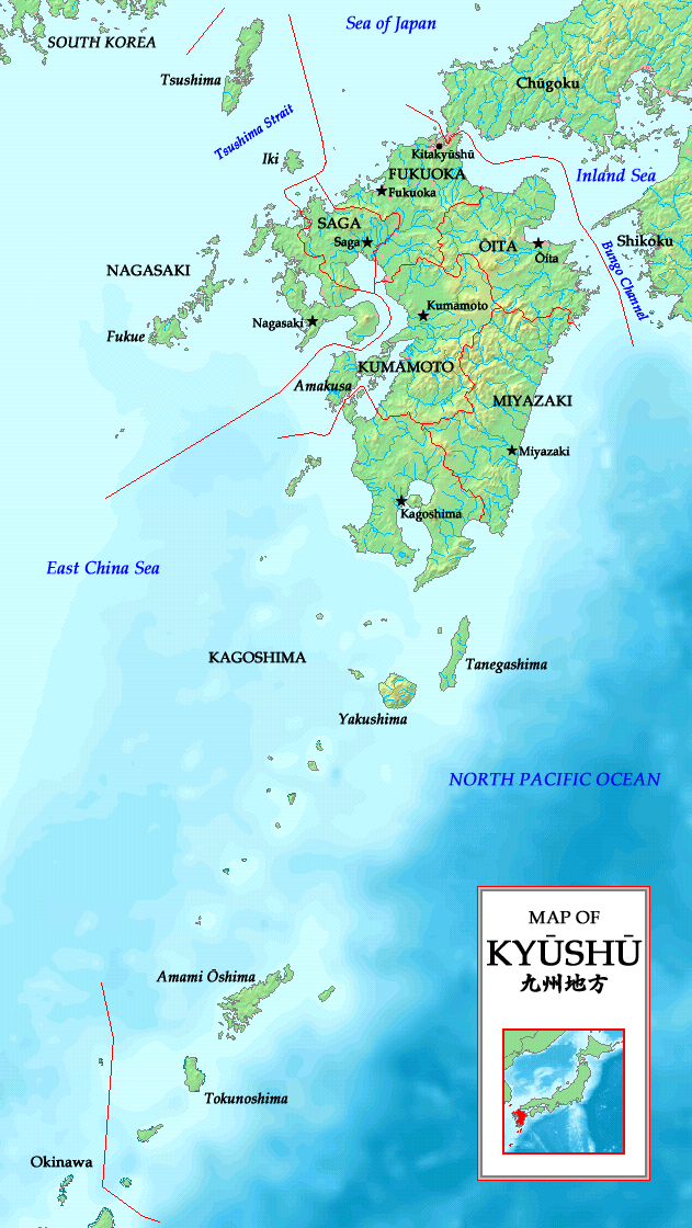 A map of the Kyūshū region (九州地方) with major islands, Kitakyūshū, prefectures and prefectural capitals indicated